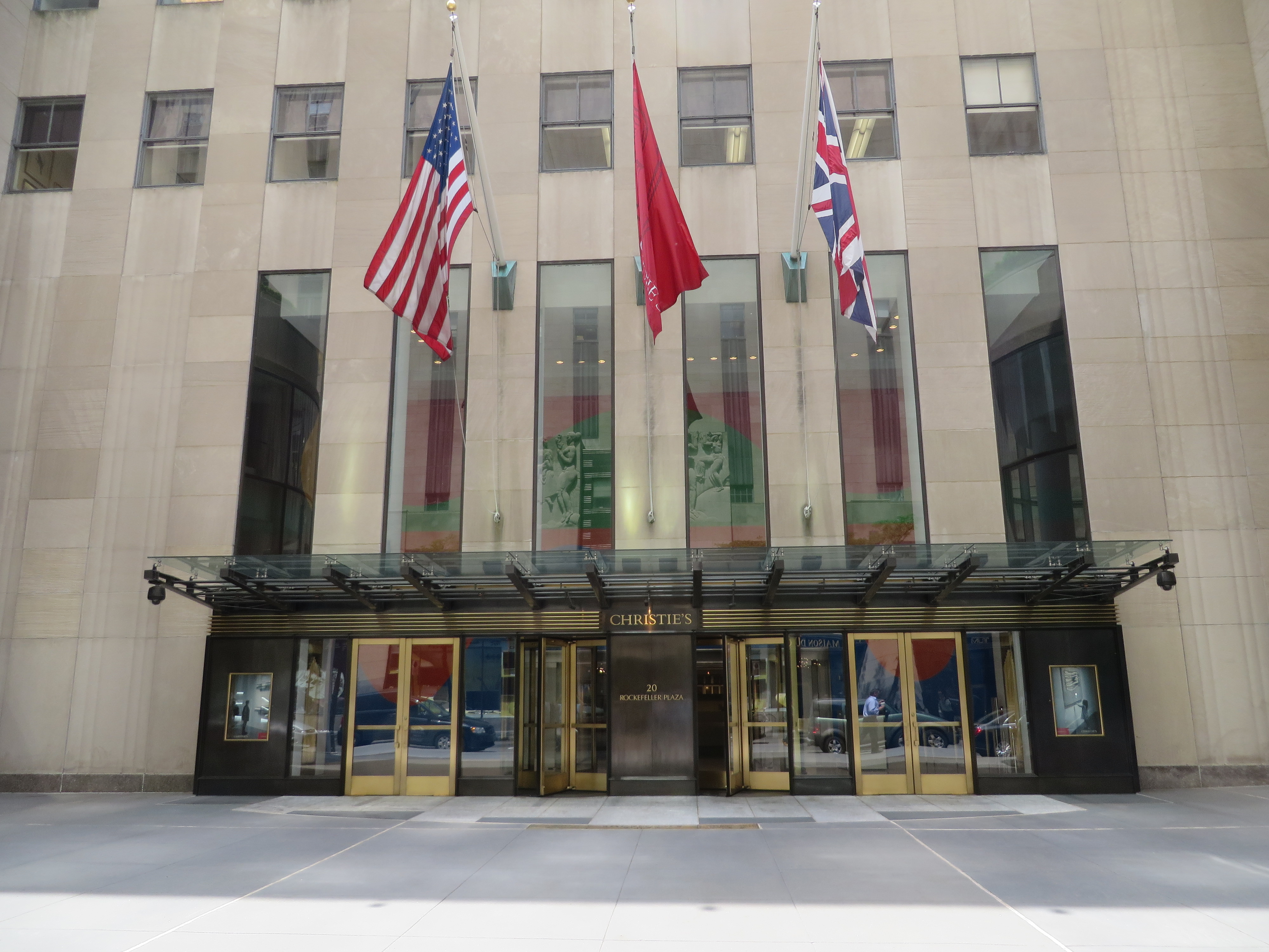 Christie's, 20 Rockefeller Plaza, Manhattan, New York.